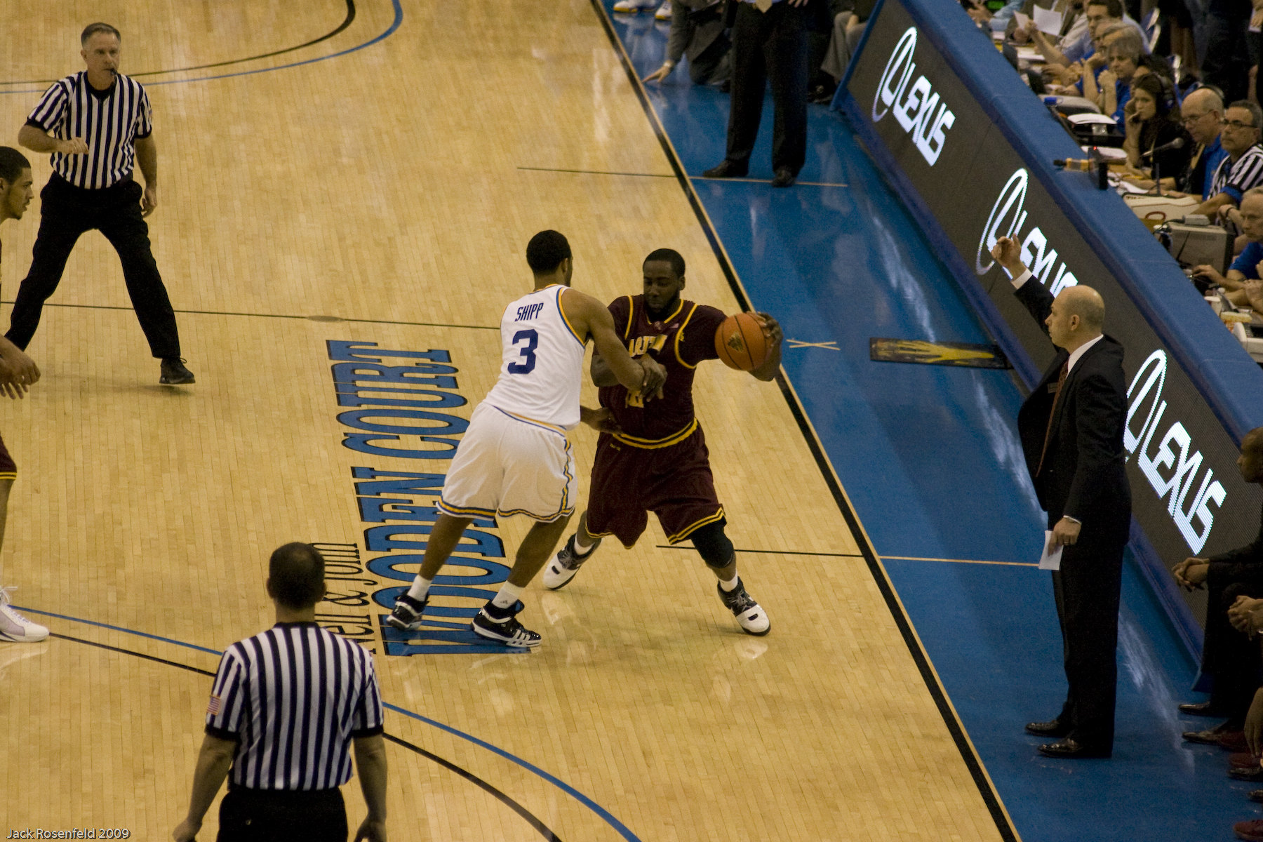 Arizona State men's basketball player James Harden drives the ball against UCLA's Josh Shipp on jan. 17, 2009.